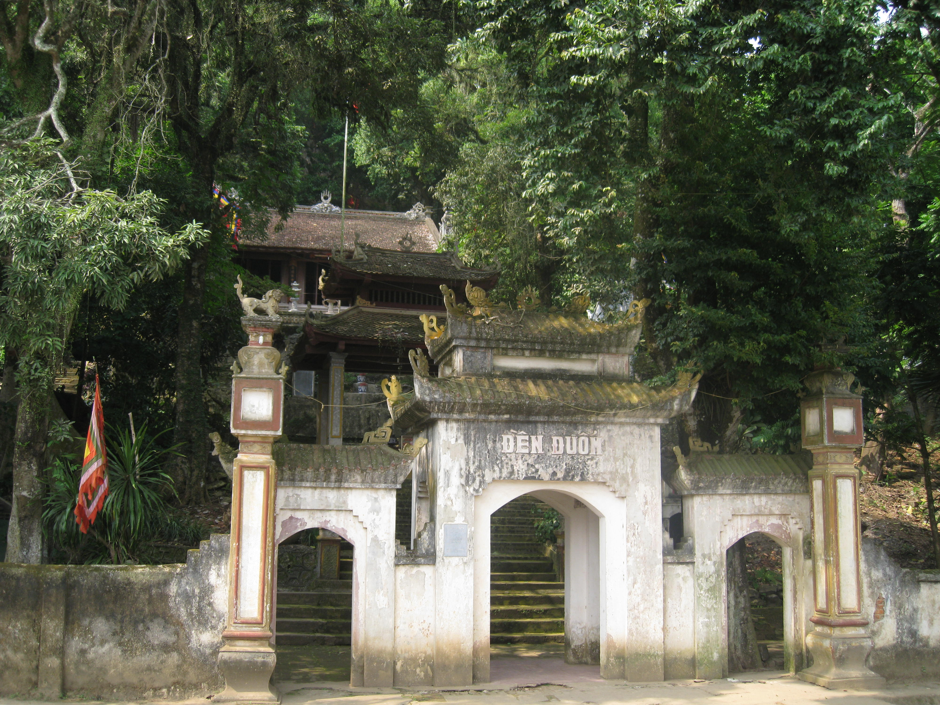 Đuổm Temple.